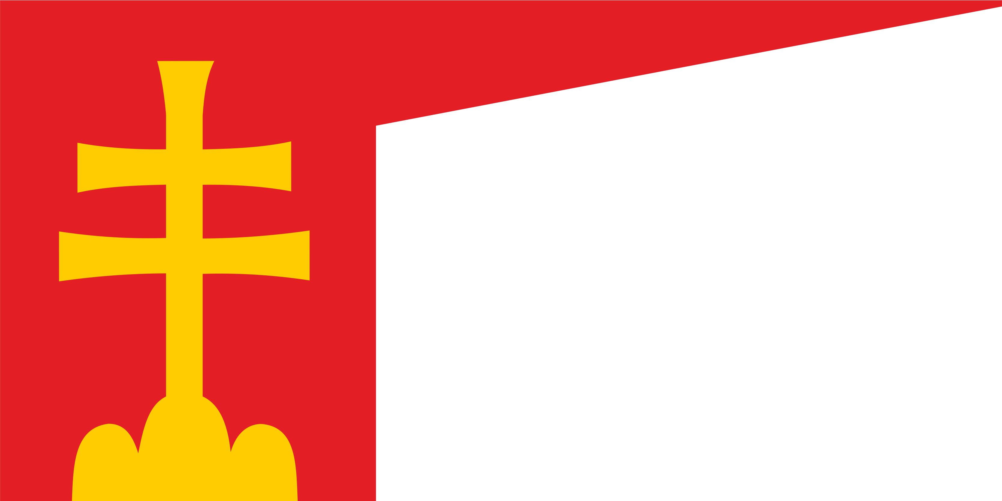 The flag of territory of aproximate present-day Slovakia from the 14th century. There is a golden doublecross at the golden triple-hill in the red field. The flag was created in the 1301, during the rule of the Louis V., whose protage was the ruler of upper part of the kingdom, Matúš Čák Trenčianský and this flag was de facto symbol of Matúš's territory.